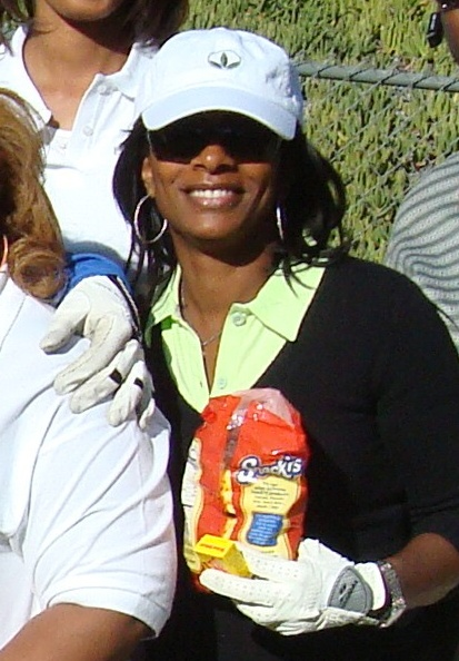 Actress Vanessa Bell Calloway